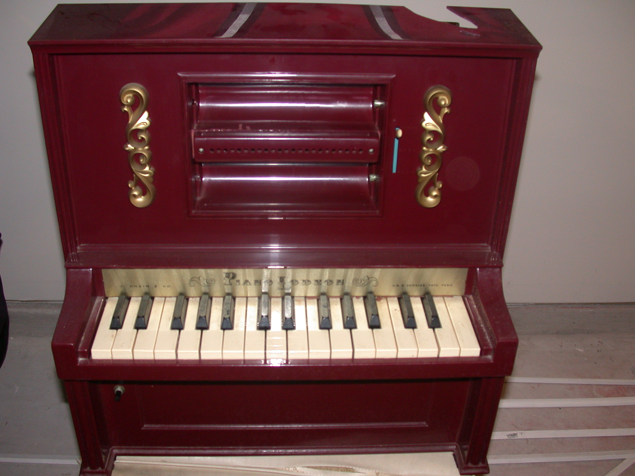 An upright toy piano